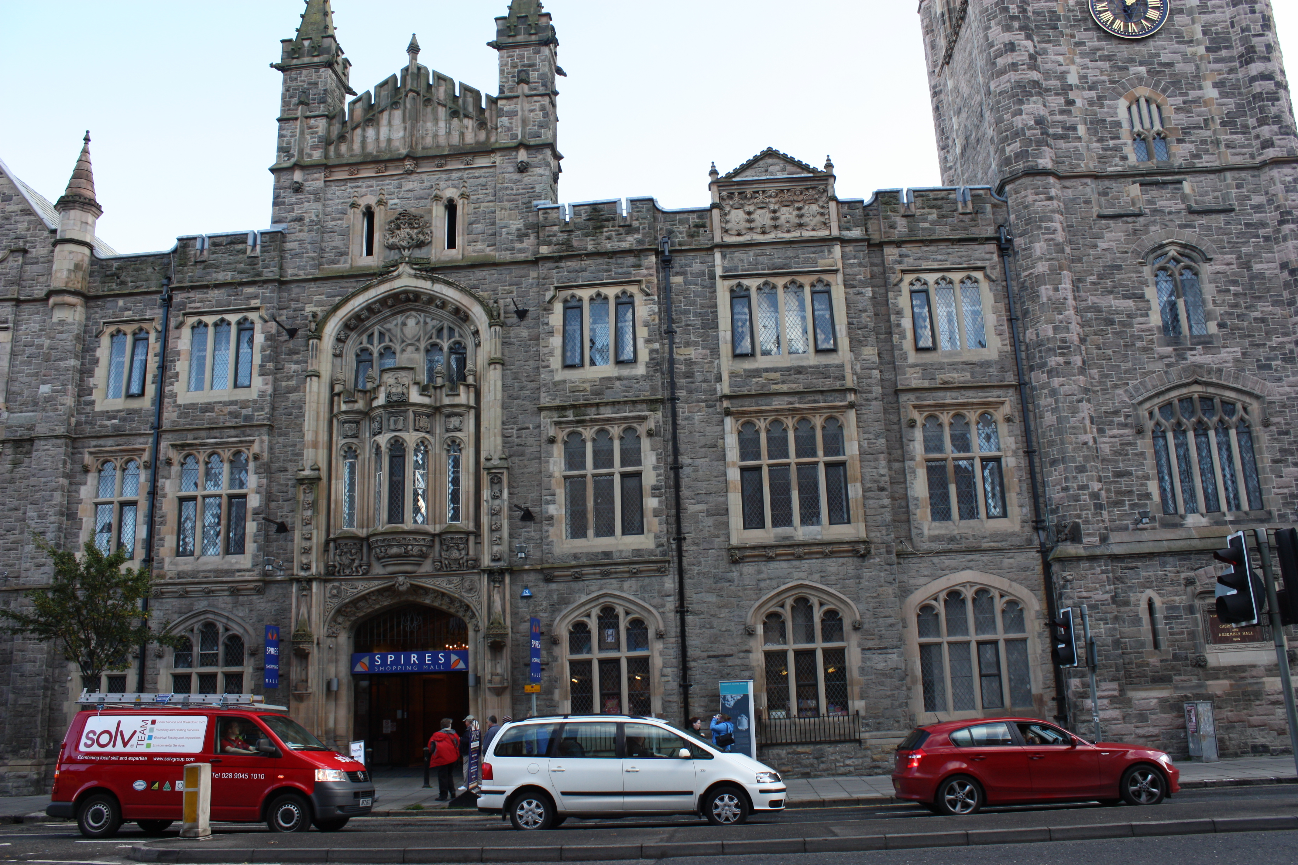 Church House (includes Presbyterian Assembly Hall and Spires Centre), Fisherwick Place, Great Victoria Street, Belfast, Northern Ireland, October 2010